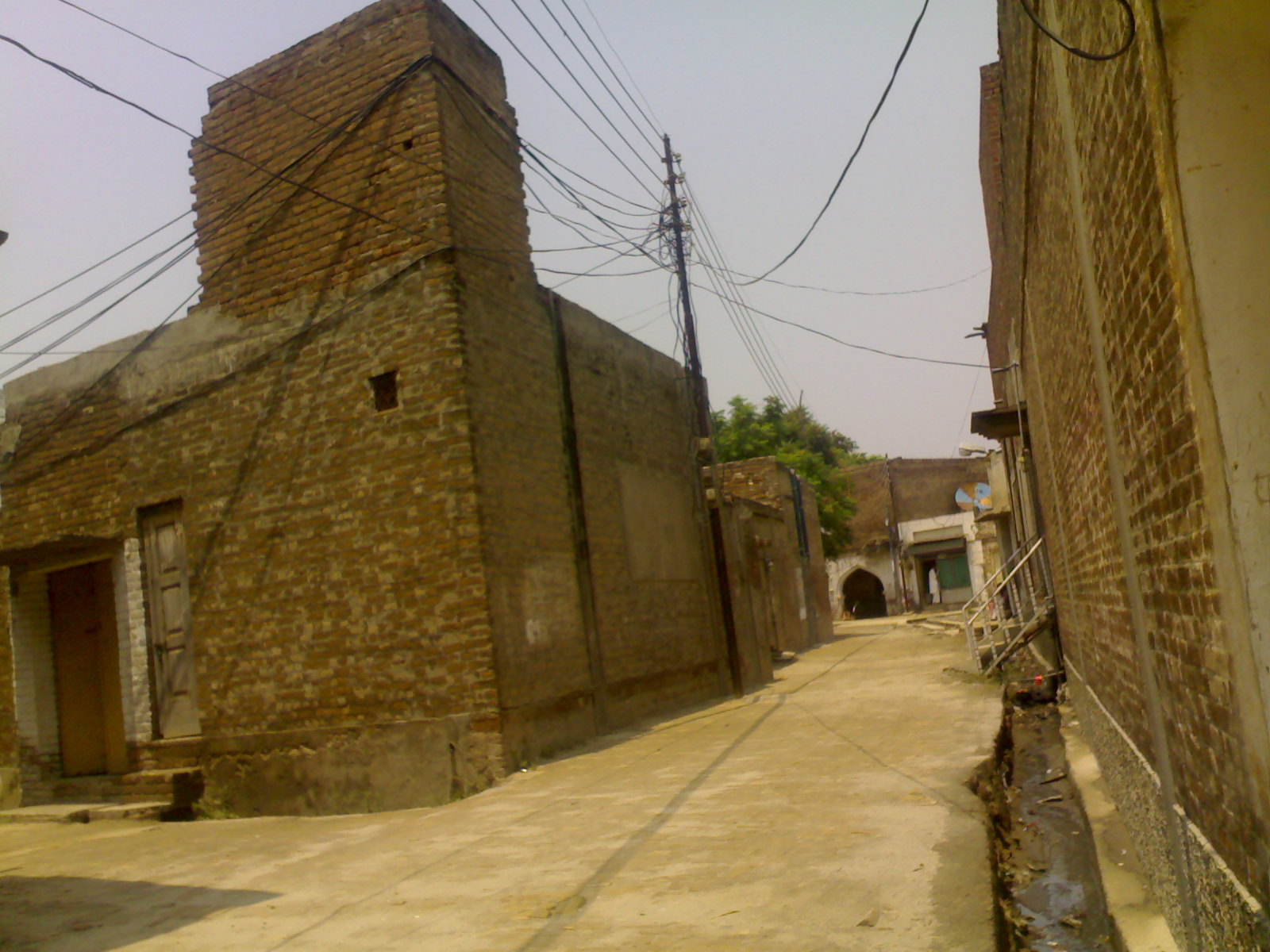 Mohallah Khan Khel.(Toru-Mardan)